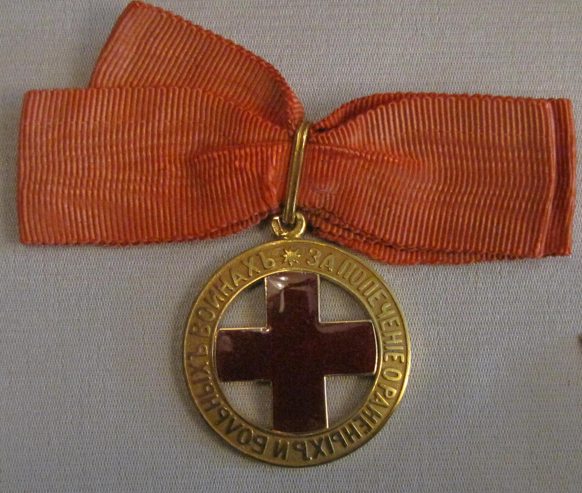 Imperial Russian Red Cross badge Знак отличия Красного Креста, founded in 1878, Ist Class (in gold); the inscription reads За попеченіе о раненыхъ и больныхъ воинах (For the care of wounded and ill warriors) (Thanks to user:Paramecium for the identification